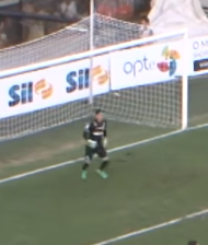 Santos FC player João Paulo in action against S.L. Benfica.